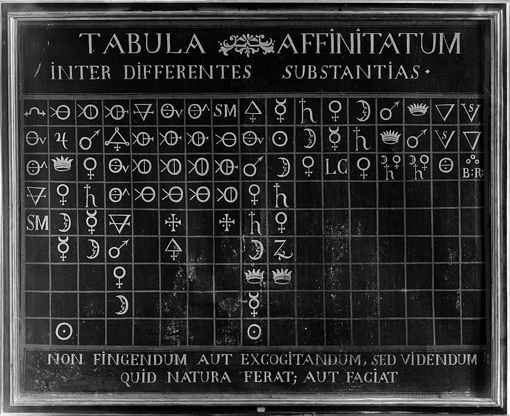 Artist Franz Huber Hoefer [attr.]Author Étienne-François GeoffroyObject type paintingobject_type QS:P31,Q3305213Description